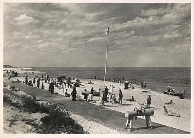 Beach in Jurata